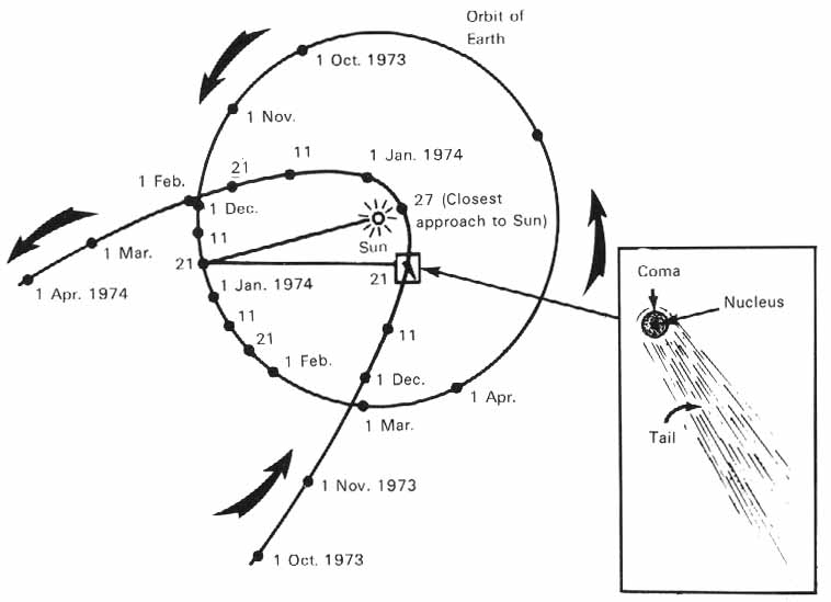 Orbit of Comet Kohoutek, 1973–1974